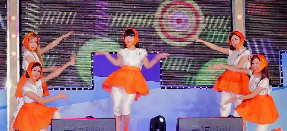 Crayon Pop performing "Uh-ee" at KT Wiz Park in Suwon, South Korea. (This is a cropped image from a fan-taken video.)